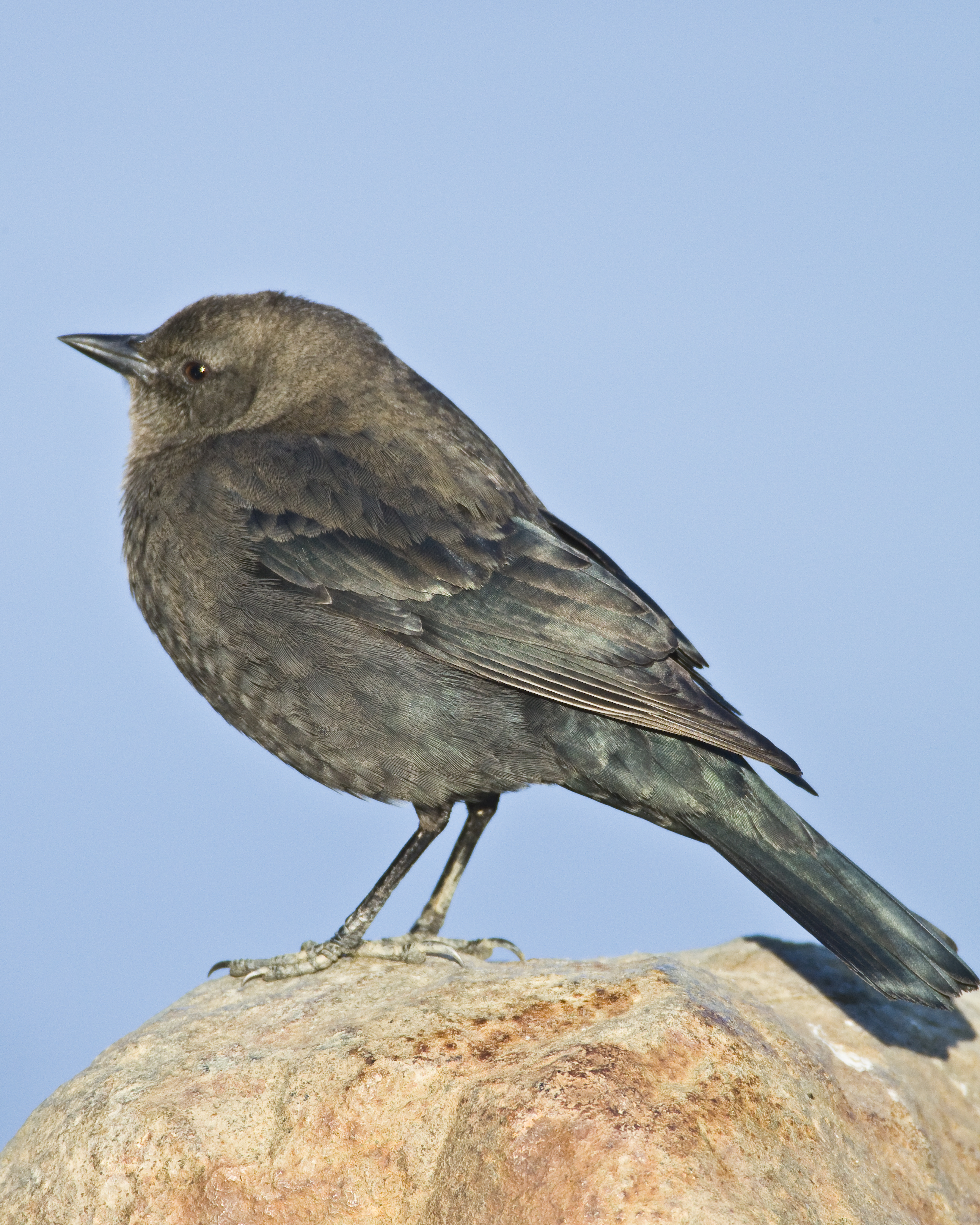 Female Brewer's Blackbird (Euphagus cyanocephalus) in Morro Bay, CA 14dec2007 Friday 14 Dec. 2007 - Photo by Mike Baird, Canon 1D Mark III with 600mm IS lens w/ 2X II TE and polarizer, on tripod